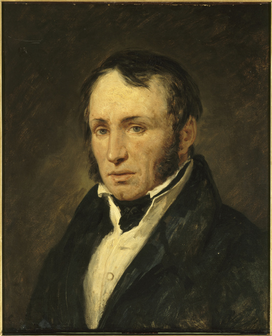 Portrait of Paul-Louis Courier (1772-1825), French Hellenist and political writer.